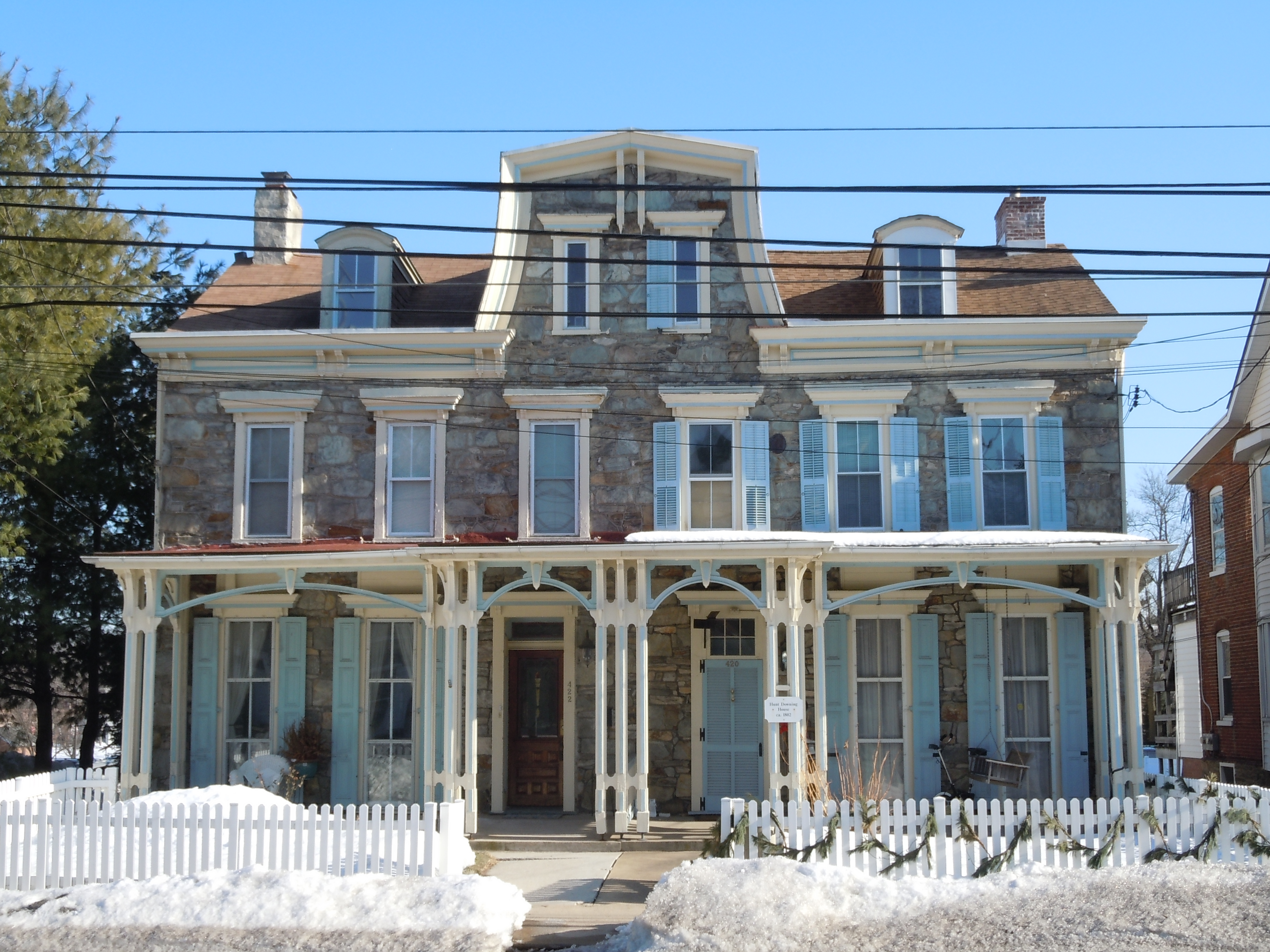 Hunt-Downing House, c. 1802, 420-422 East Lancaster Street (US 30) in Downingtown, Chester County, Pennsylvania. In the East Lancaster Avenue Historic District, on the NRHP since December 11, 1979. The HD is in irregular pattern along East Lancaster Avenue, Downingtown, PA. This Hunt Downing House should not be confused with the one a few miles east in West Whiteland Township, also on the NRHP.